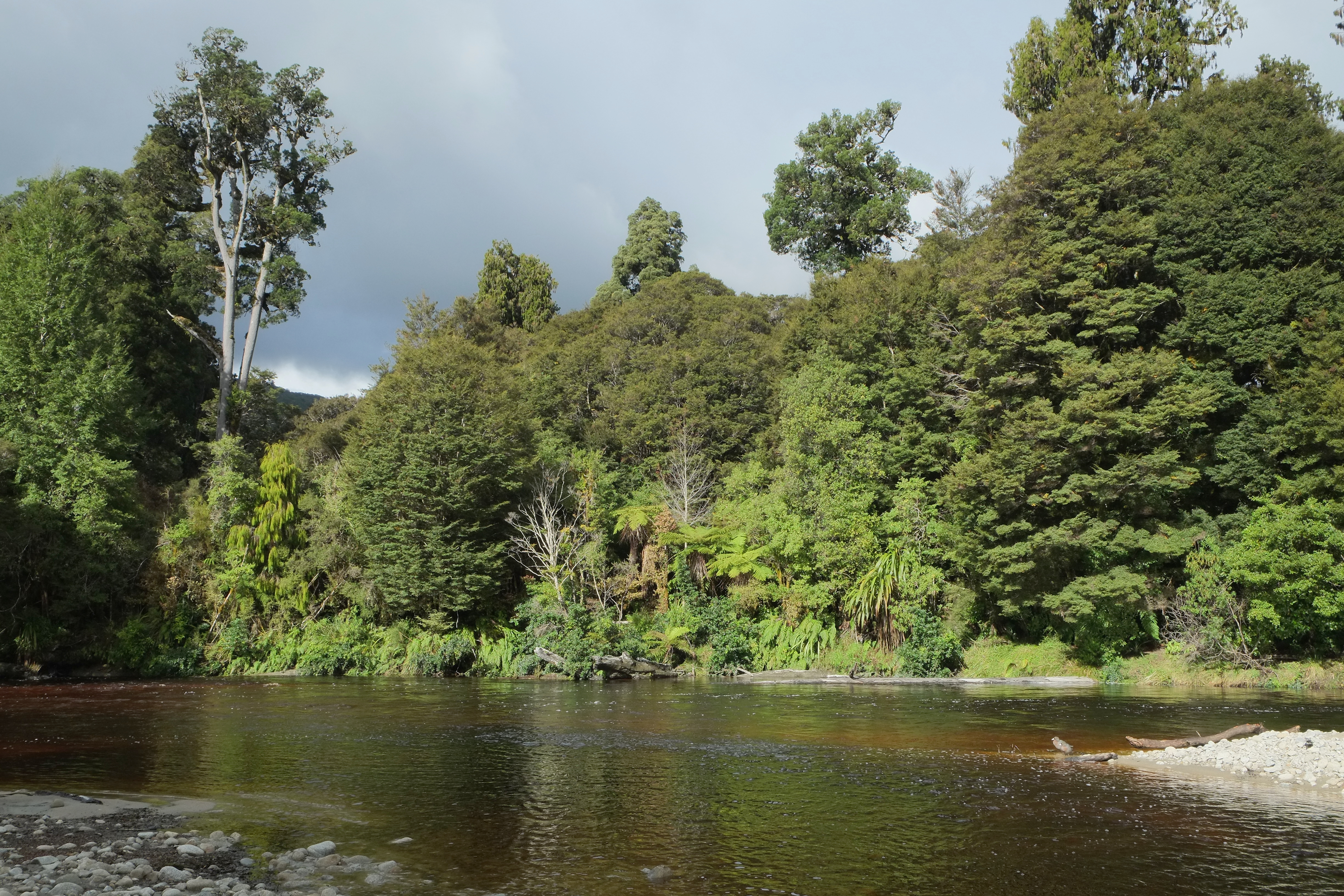 Oparara River in Kahurangi National Park; two whio can be seen on the river bank in the bottom-right (if zoomed in/full resolution)